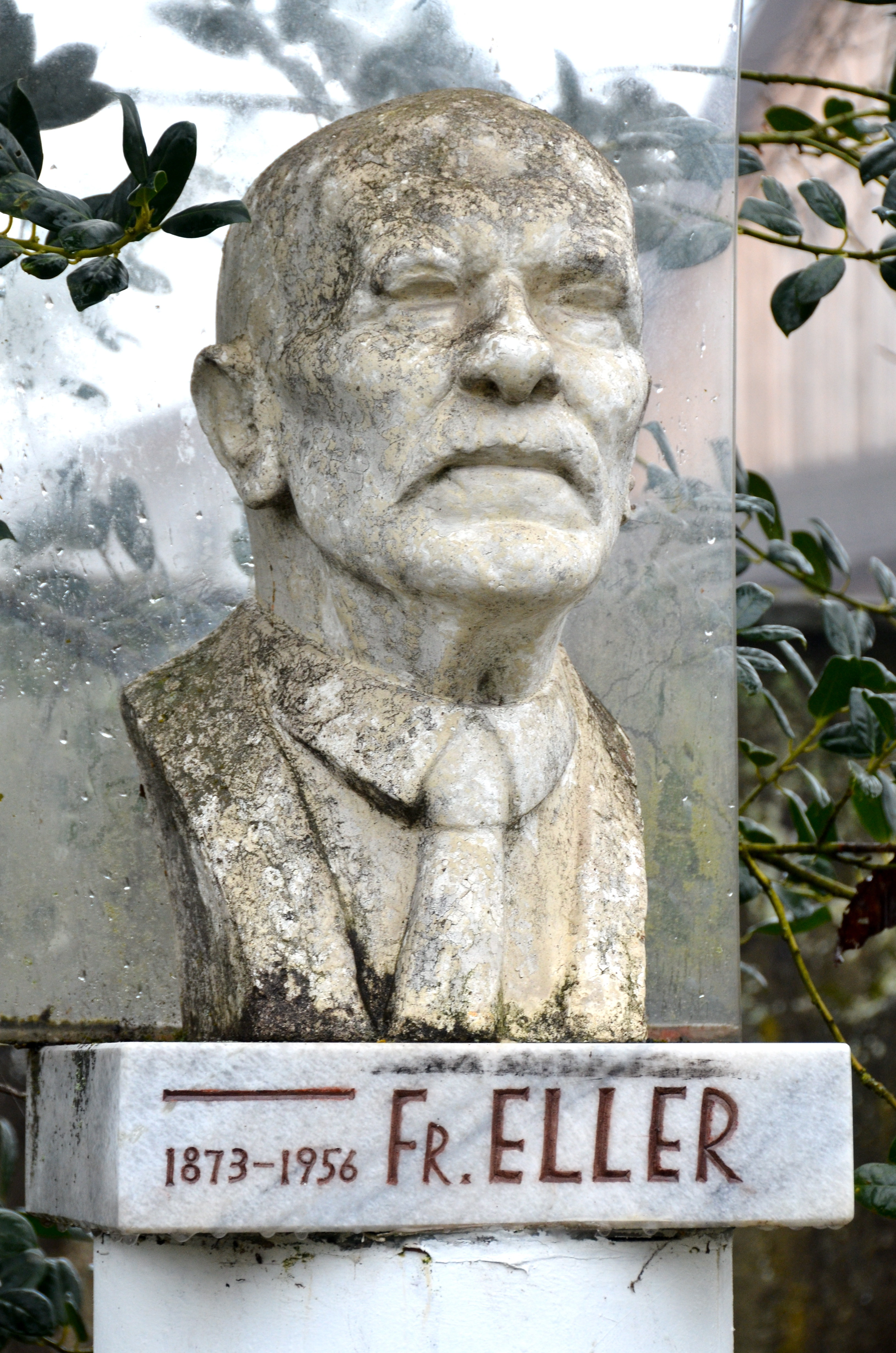 Bust of Fr. Eller, created by the Slovenian sculptor France Gorše at the cultural park at Suetschach, market town Feistritz im Rosental, district Klagenfurt Land, Carinthia / Austria / EU